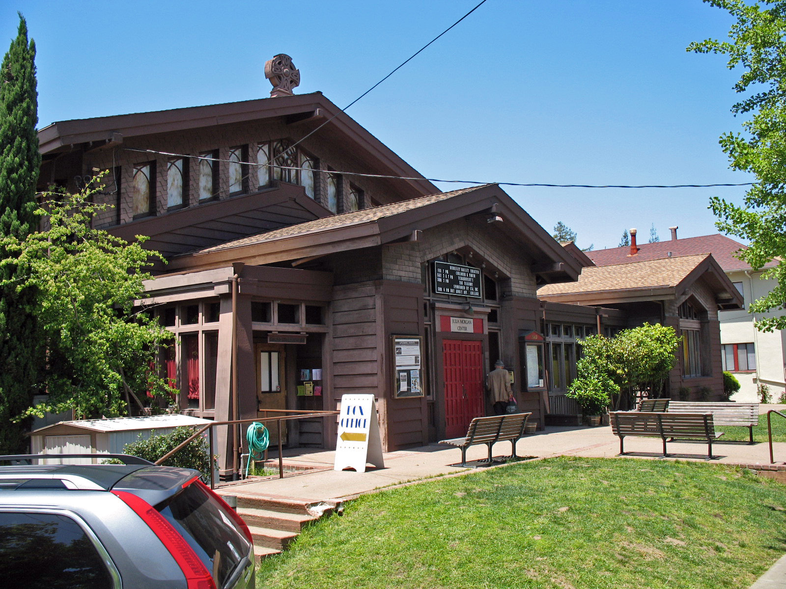 National Register of Historic Places listings in Alameda County, California. St. John's Presbyterian Church, 2640 College Ave, Berkeley, CA. Photographed 2009-05-17 from the west side of College Ave. near the intersection with Derby St. Now the Julia Morgan Center for the Arts and home of the Berkeley Ballet Theater.